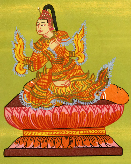 Htibyusaung Medaw nat (spirit), th in the official pantheon of Burmese nats